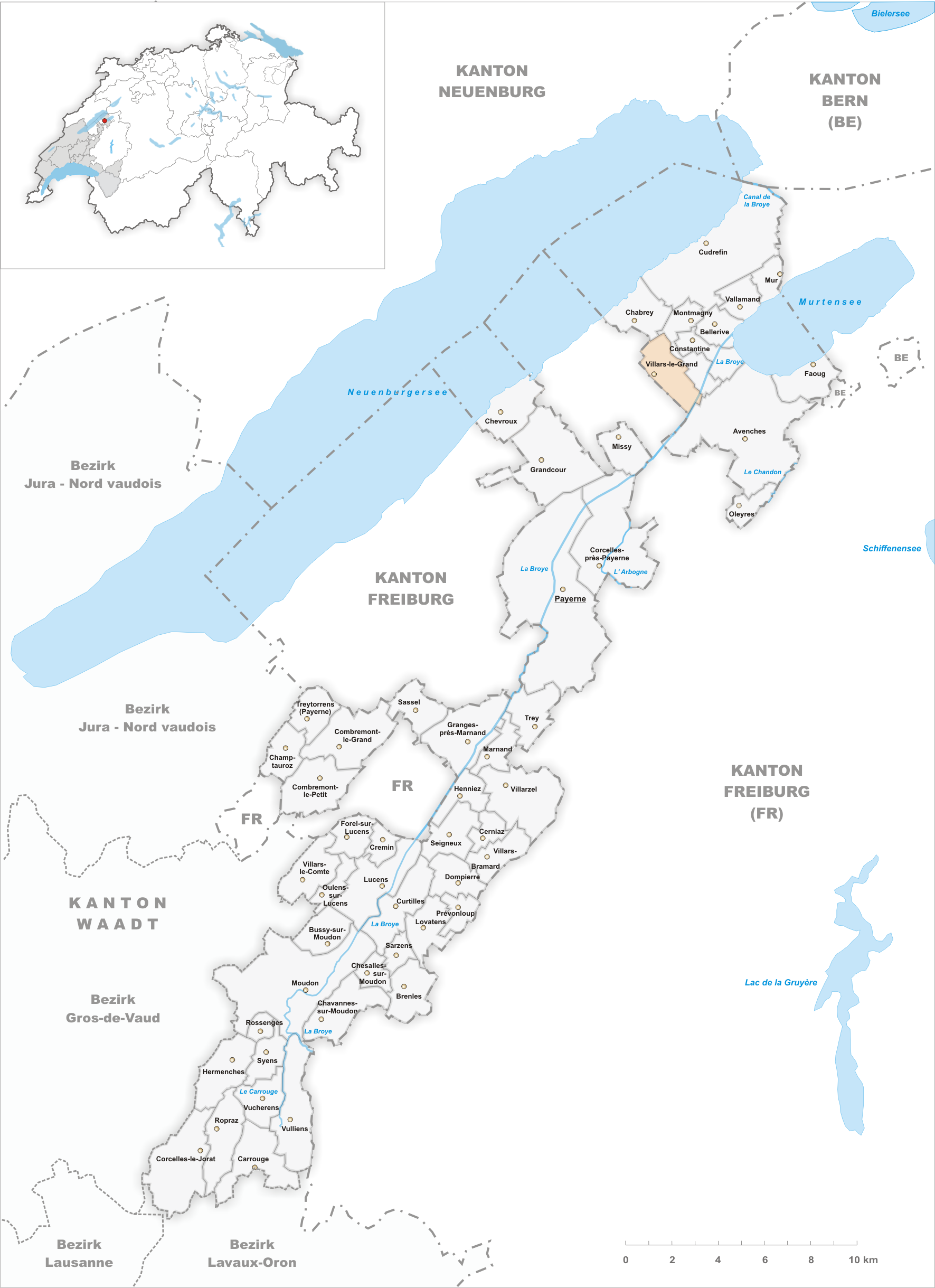 Municipality Villars-le-Grand